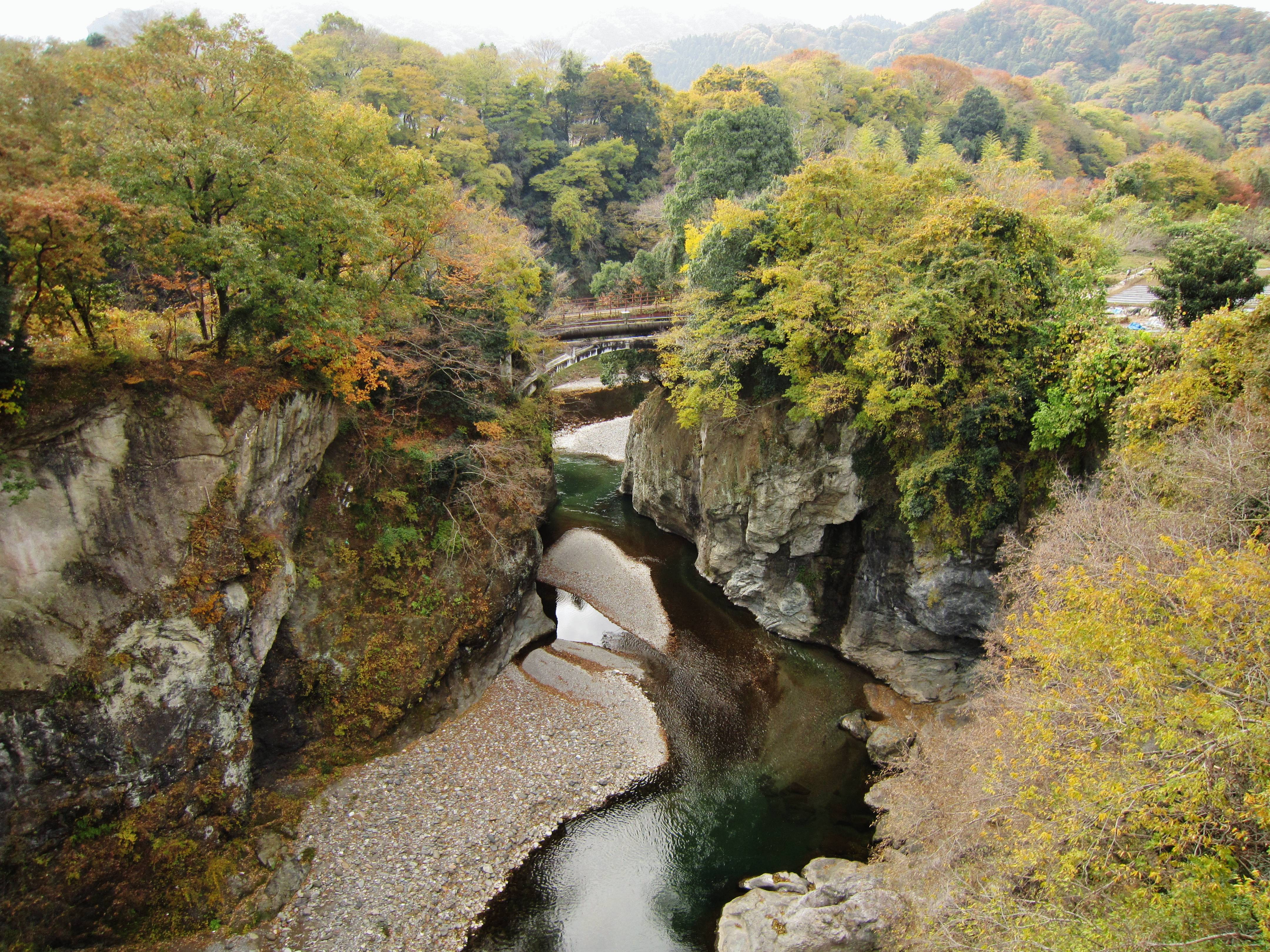 Tōrazu Gorge.